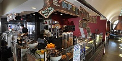 The WeatherTech Cafe